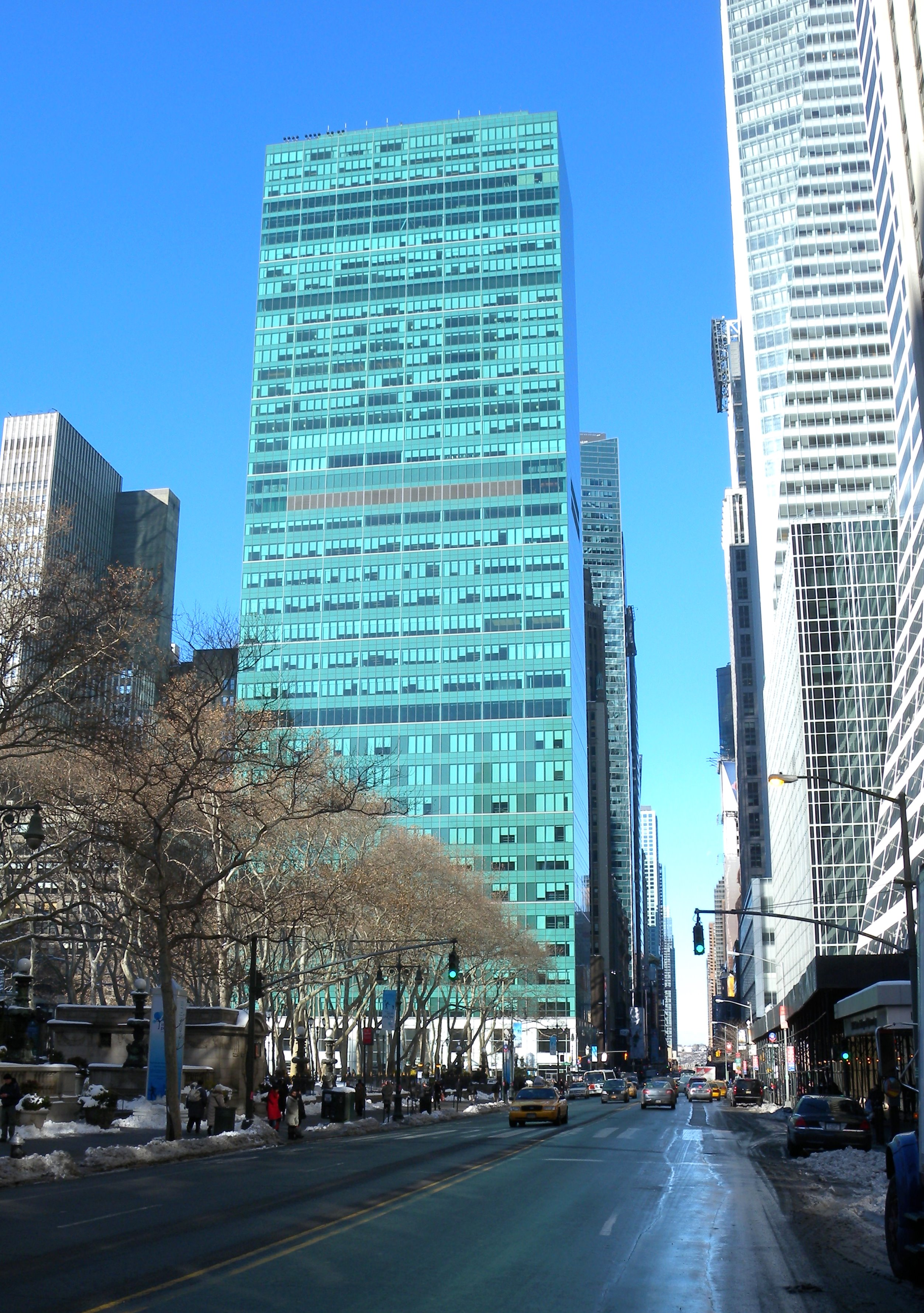 Looking west along 42nd Street on a sunny morning.